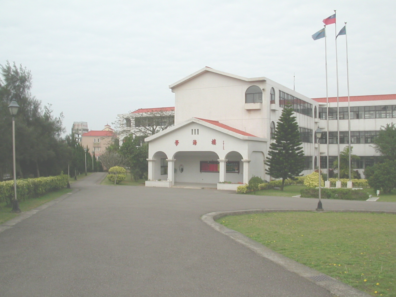 Ta Hwa High School in Taoyuan 中文（台灣）: 桃園縣私立大華高級中學學海樓。